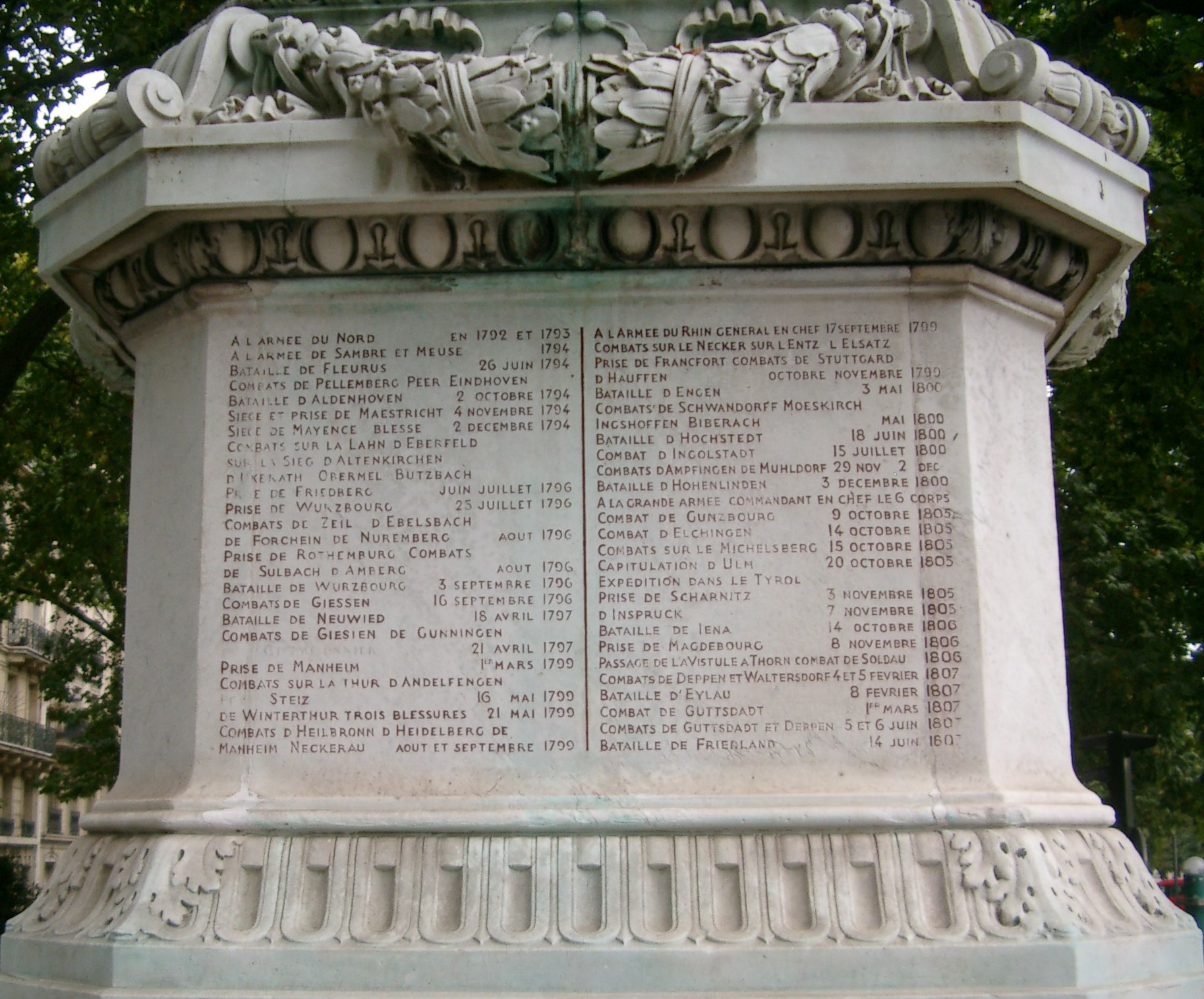 One of the 4 faces of the pedestal of the statue of Michel Ney